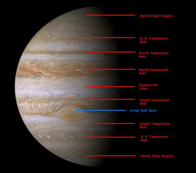 Annotated picture of Jupiter taken by the Cassini spacecraft (Credit NASA/JPL for original picture) For annotation